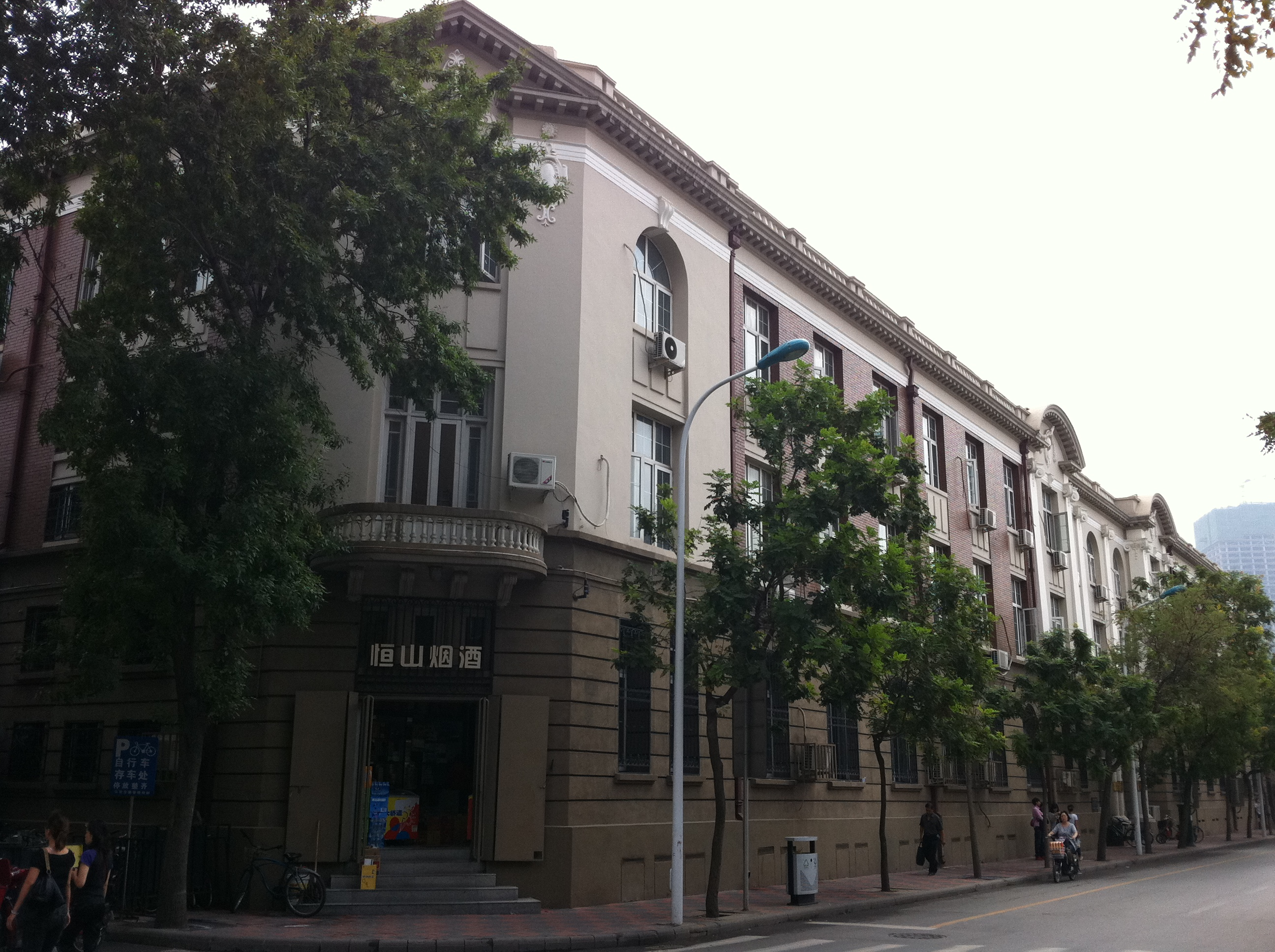 view of former Kailuan Coal Mine office building in Huayuan Lu No. 1 and Chifeng Dao No. 65–69